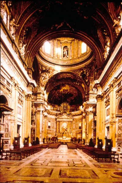 The interior of the church "Il Gesu" in Rome